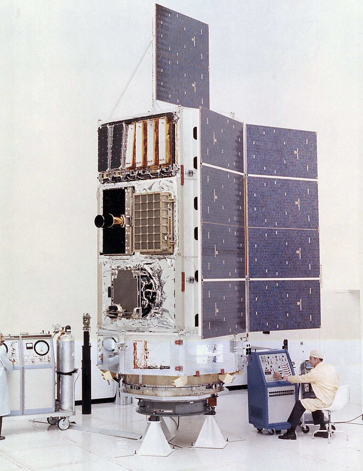 This photograph shows the High Energy Astronomy Observatory (HEAO)-1 being assembled at TRW Systems of Redondo Beach, California. The HEAO was designed and developed by TRW, Inc. under the project management of the Marshall Space Flight Center. The first observatory, designated HEAO-1, was launched on August 12, 1977 aboard an Atlas/Centaur launch vehicle and was designed to survey the sky for additional x-ray and gamma-ray sources as well as pinpointing their positions. The HEAO-1 was originally identified as HEAO-A but the designation was changed once the spacecraft achieved orbit.